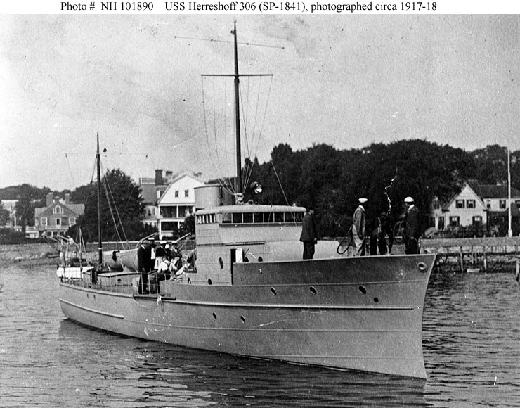 The United States Navy patrol vessel . Everyone on board is in civilian clothes, suggesting this photograph may have been taken before the U.S. Navy acquired her.